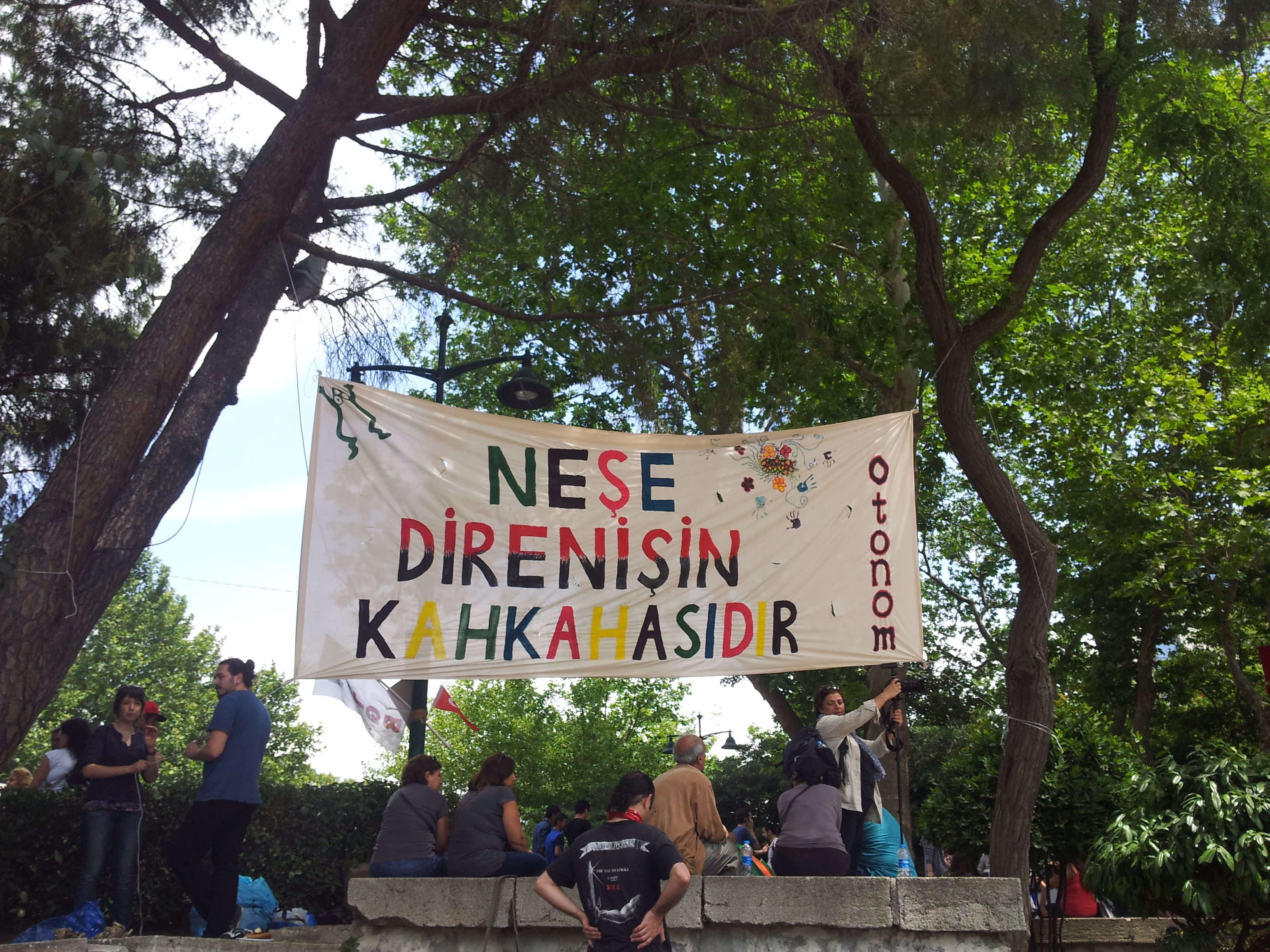 A banner in Gezi Park during Gezi Protests: "Joy is Laughter of the Resistance"